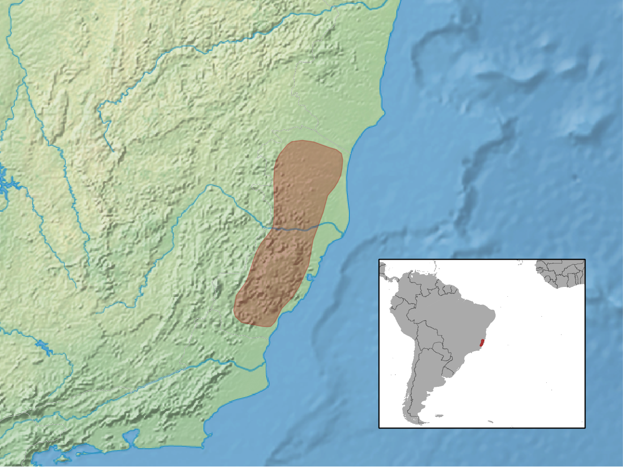 geographic distribution of Trinomys paratus